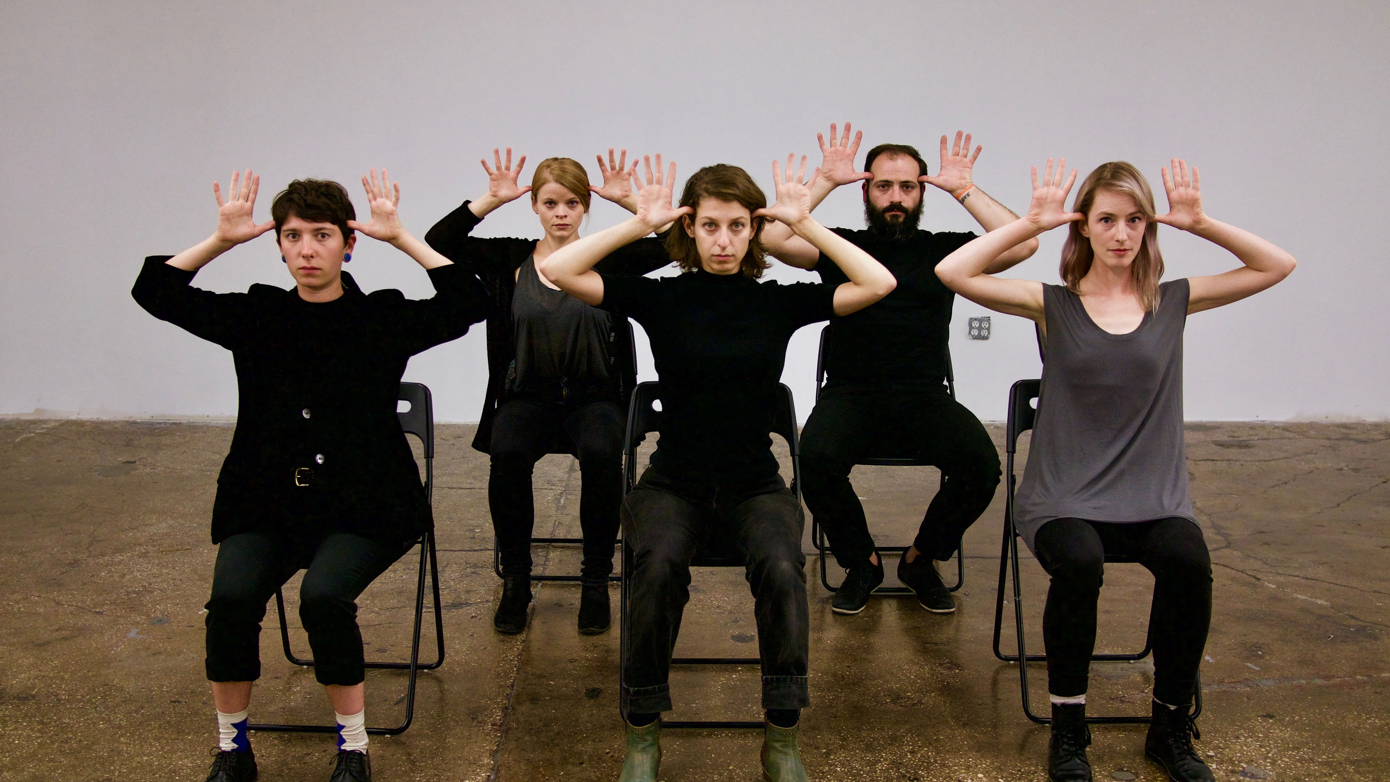 TAK ensemble with moose hands from Jessie Marino's composition "Portrait of a Lady with a Squirrel and a Starling." At Chashama Space in Long Island City. Photographed by David Bird.